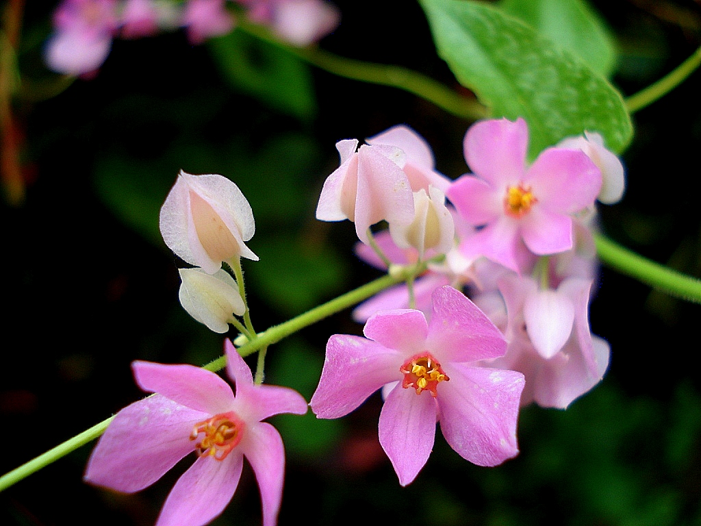 Antigonon leptopus or Coral Vine.. belongs to Polygonaceae family.